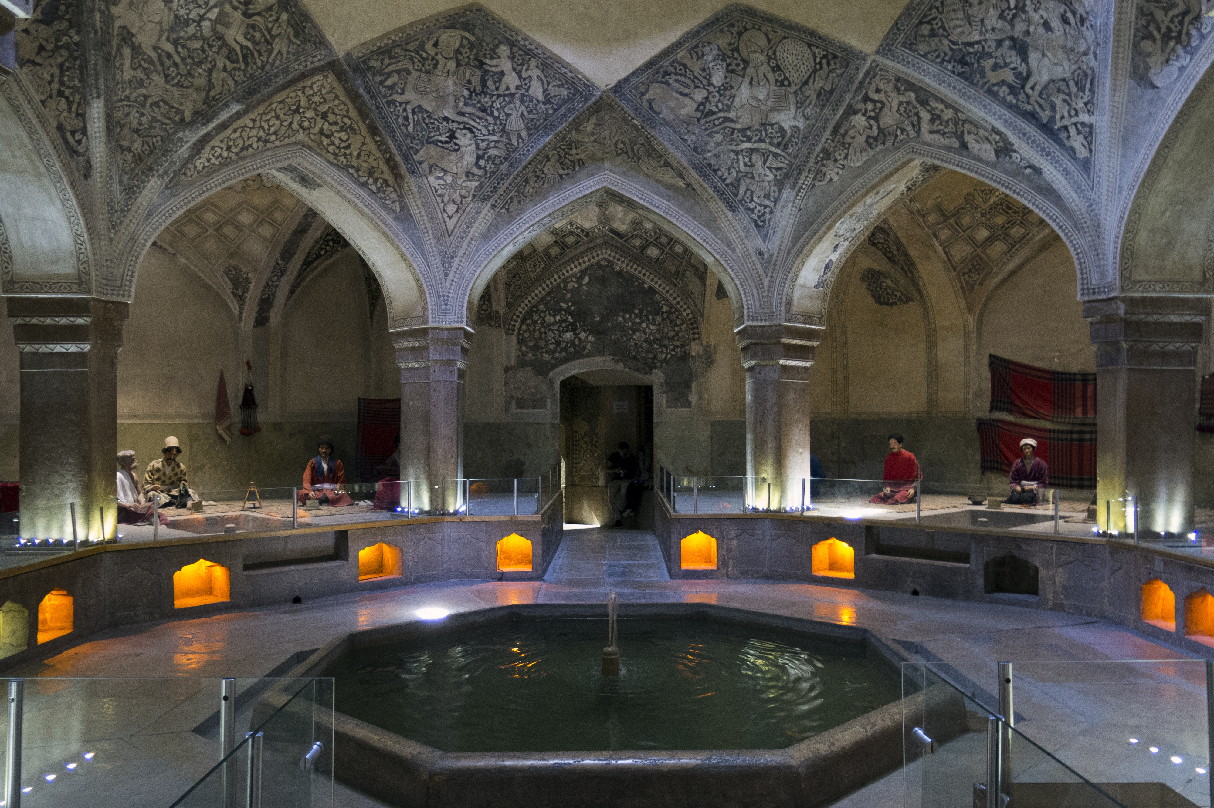 Vakil Bath is an old public bath in Shiraz, Iran